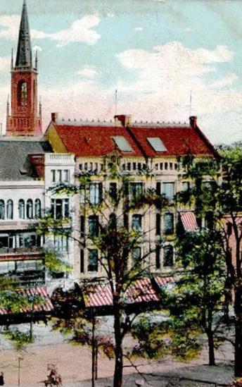 t